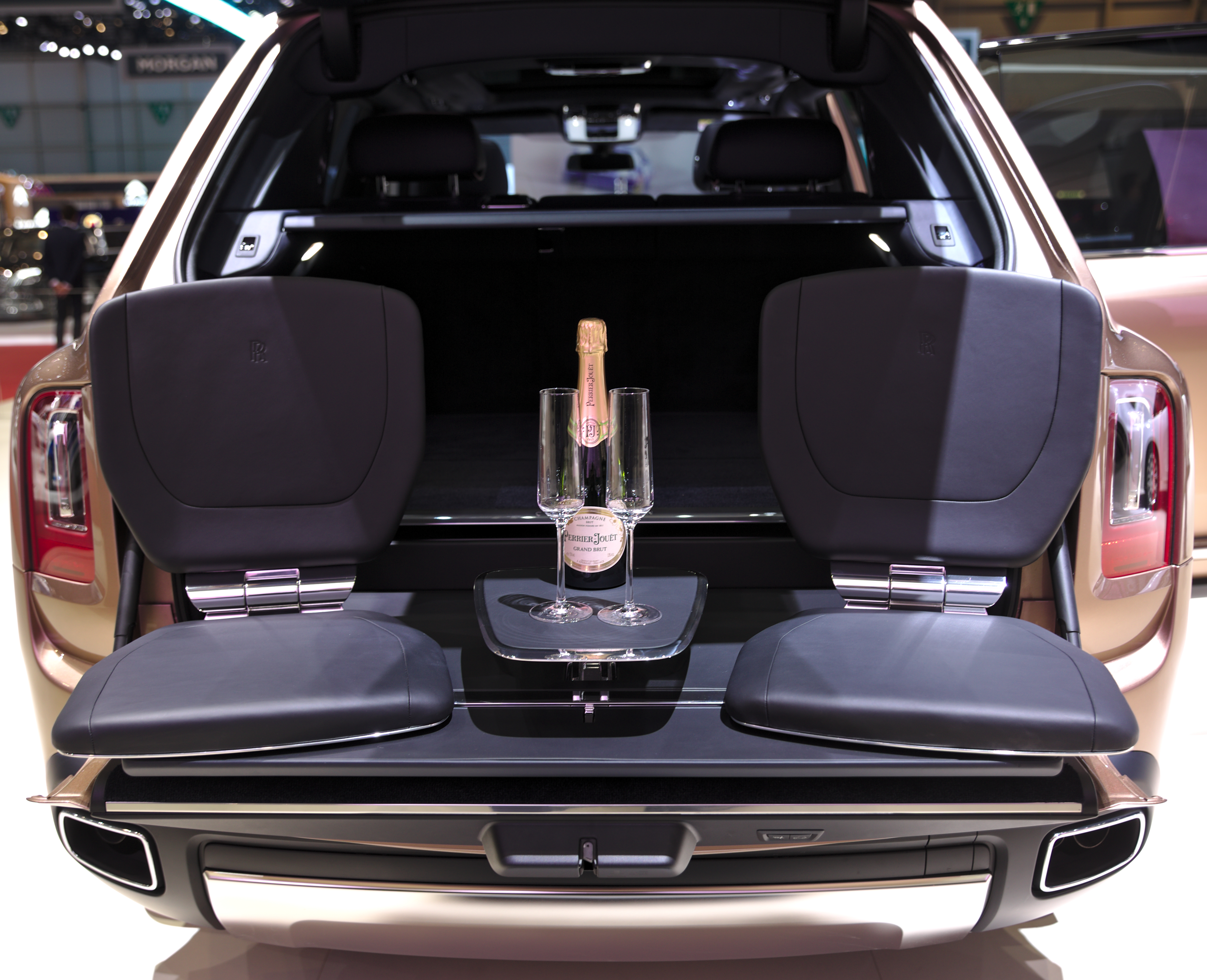 Rolls-Royce Cullinan at Geneva Motor Show 2019